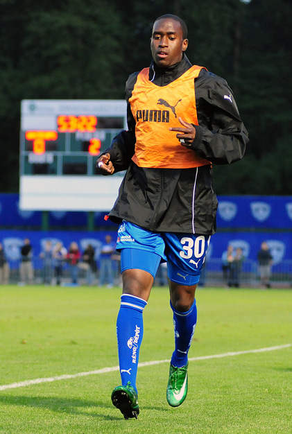 Photo of soccer player, Pierre-Rudolph Mayard.